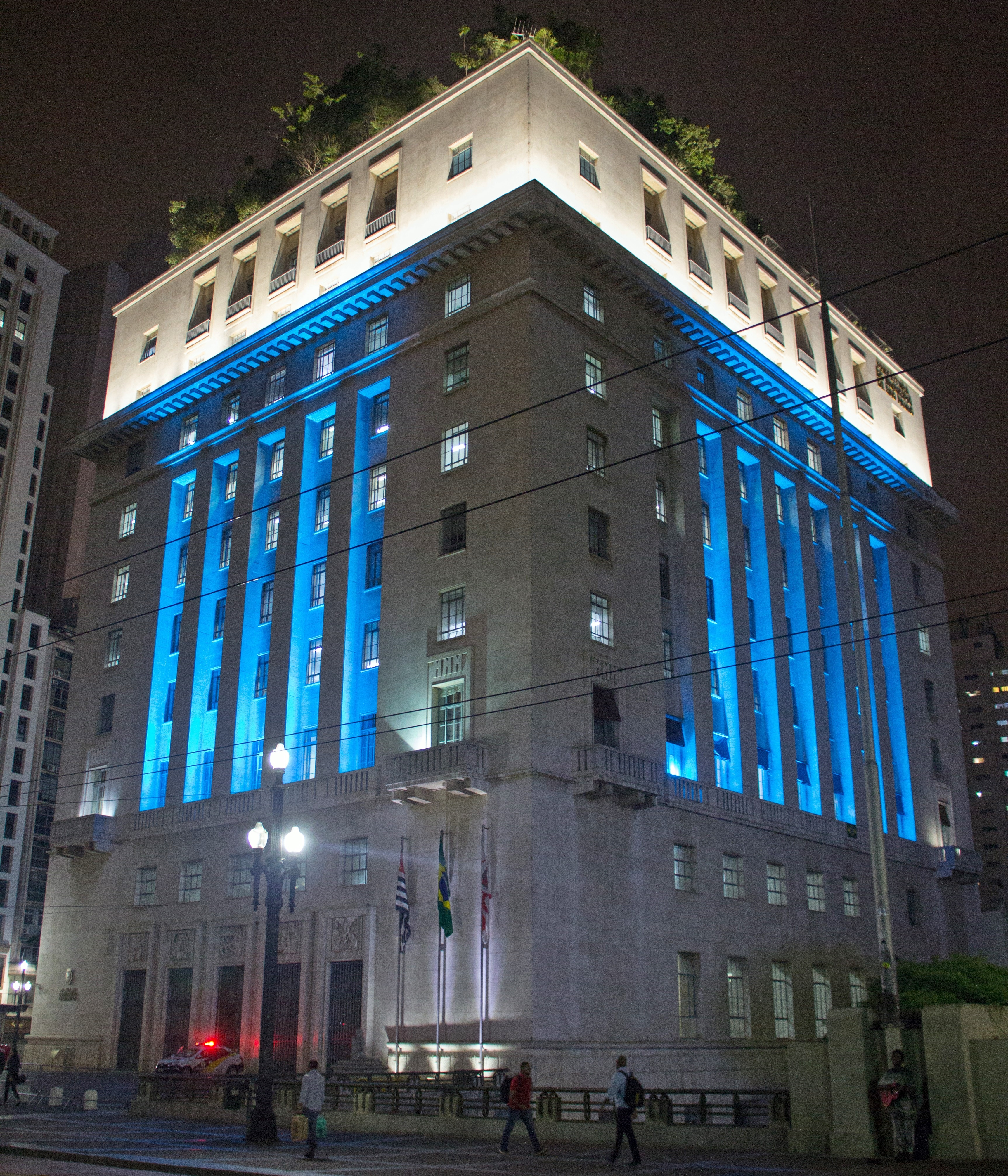 Caminhada Nocturna on 23 November 2017, São Paulo, Brazil